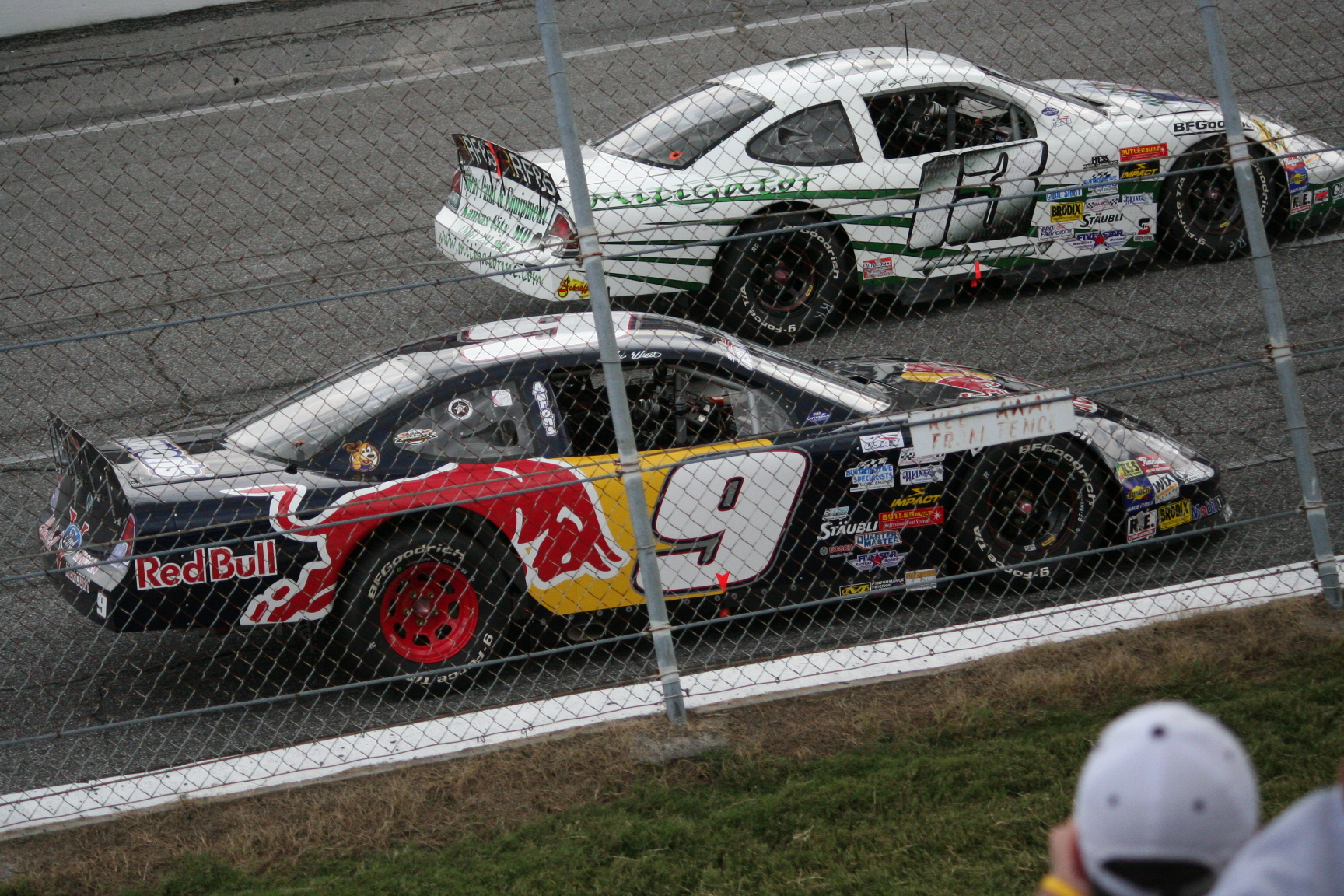 Chase Elliott (No. 9) and John Gibson (No. 13) line up for the Brushy Mountain 250, a USAR Pro Cup Series race held at North Wilkesboro Speedway on October 3 2010.